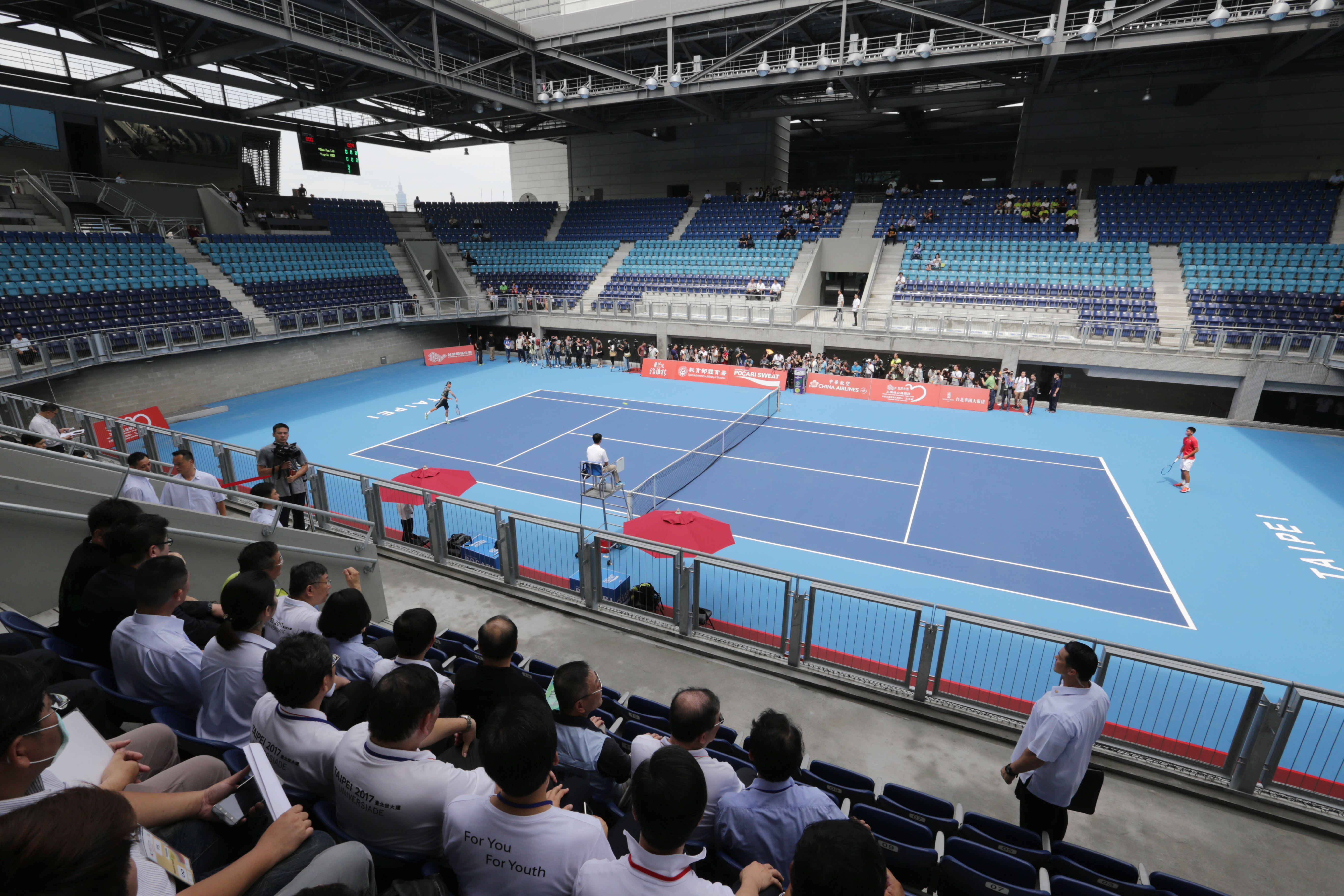 授權方式及範圍：中華民國總統府│政府網站資料開放宣告 Authorization Method & Scope: Office of the President, Republic of China (Taiwan) | Government Website Open Information Announcement